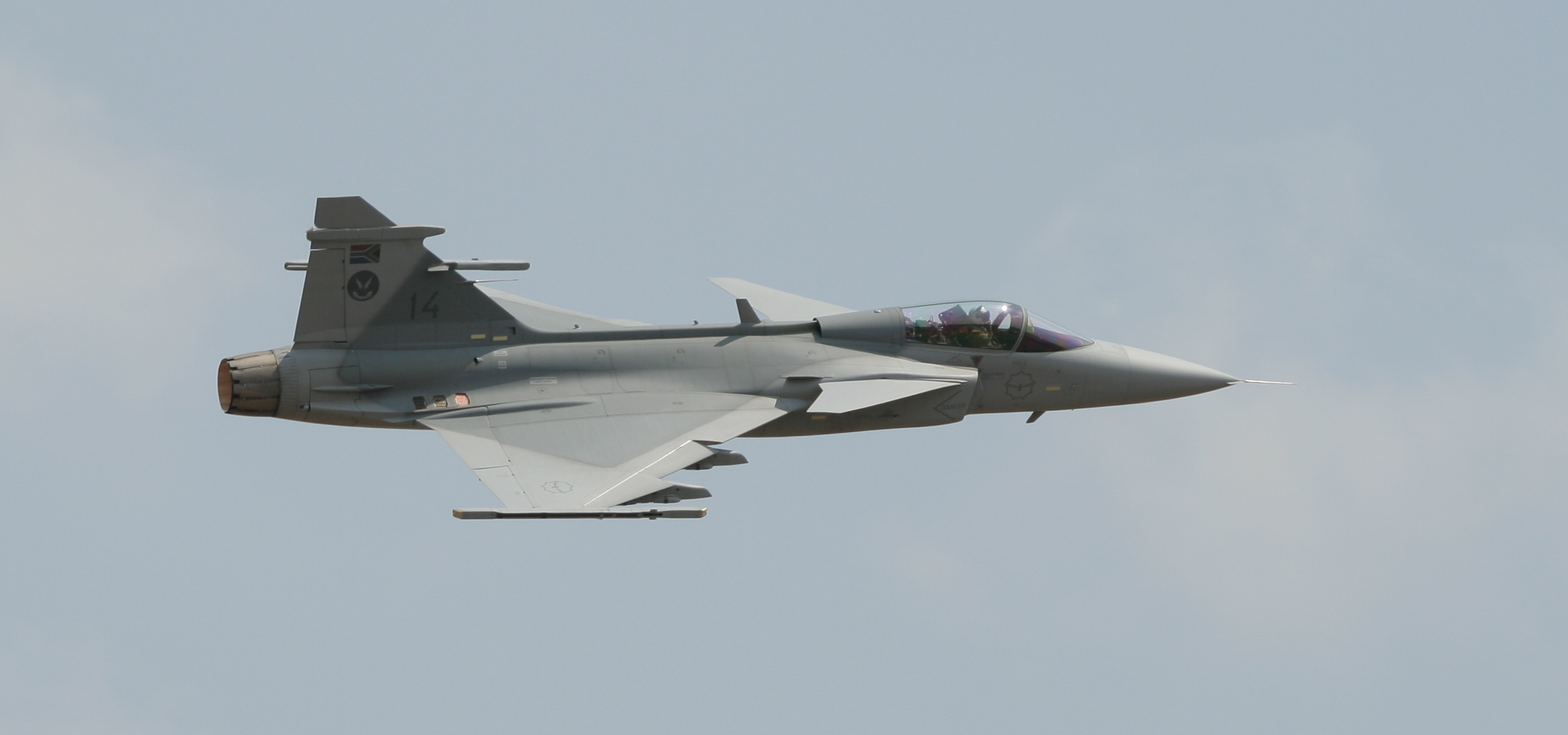 South African Air Force Saab JAS-39 Gripen